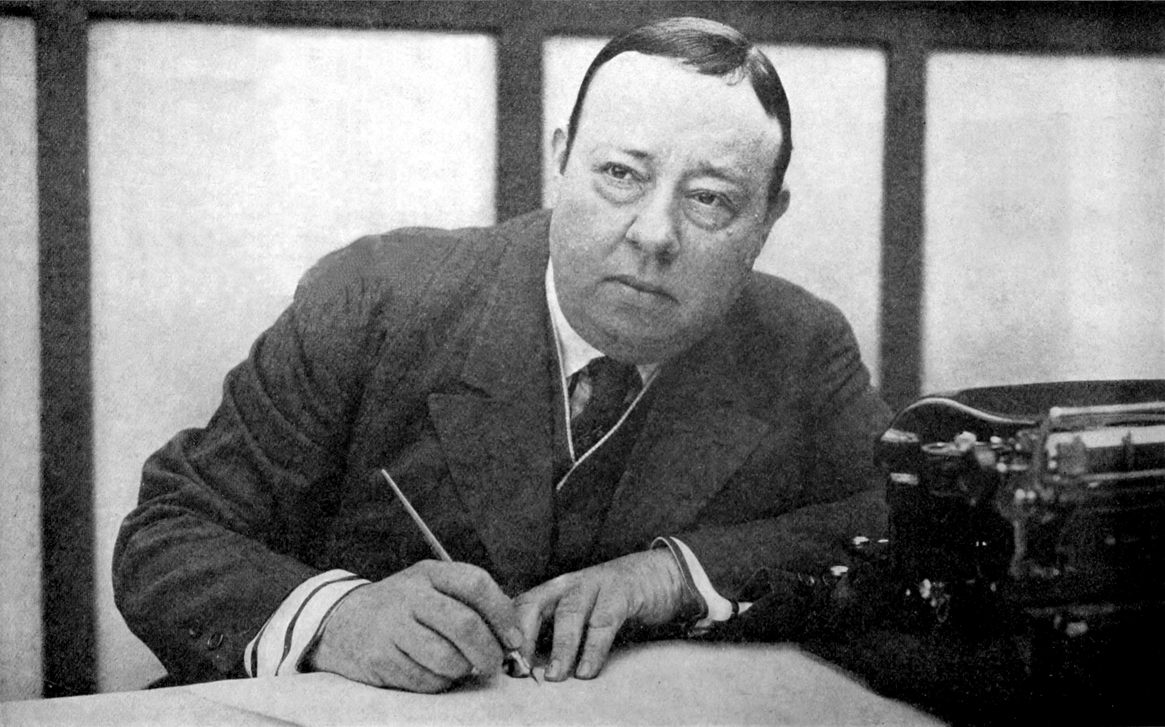 Photograph of writer Jean Havez